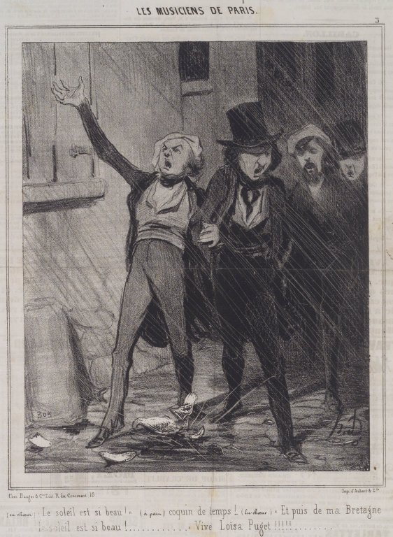 Part of the series Les musiciens de Paris, no. 3.